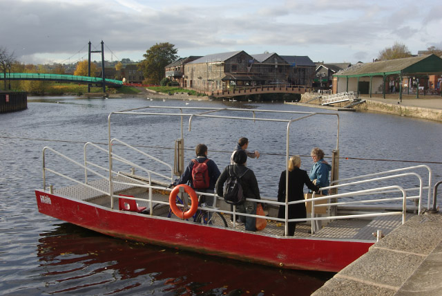 The Butts Ferry, a cable ferry that crosses the River Exe in the city of Exter, Devon, England. For more information see the Wikipedia article Butts Ferry.